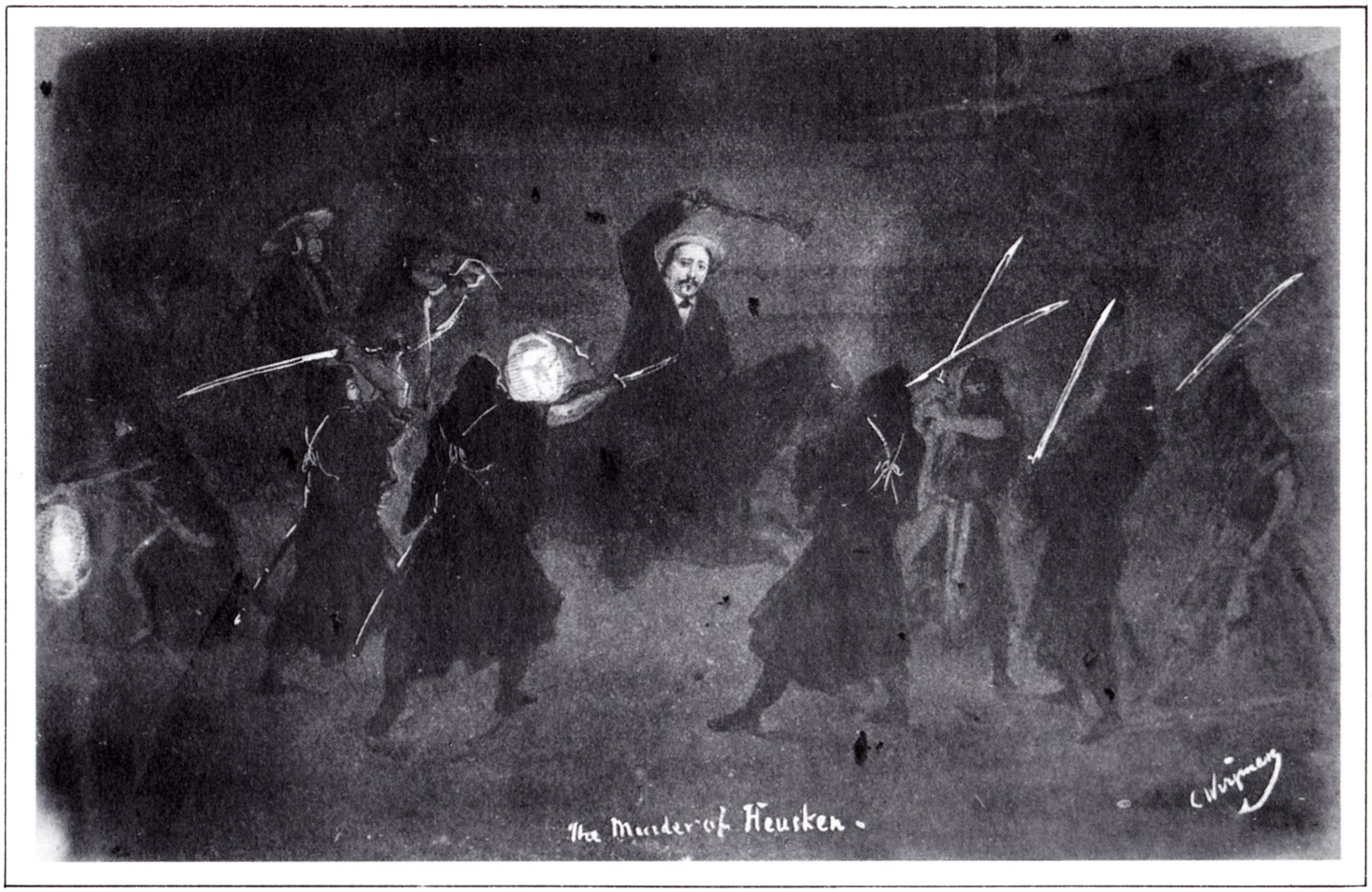 H. Heusken (1832-1861) Interpreter at Japan